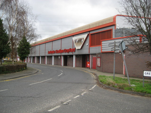 Crayford Greyhound Stadium Crayford has been a venue for greyhound racing since 1937, although this stadium was constructed, in a different location to the original one, in 1986. The stadium is sponsored by Ladbrokes, and is one of only four remaining in the London area, the others being at Romford, Walthamstow and Wimbledon. The stadium's website is here